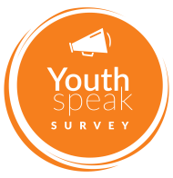 It is not just another survey, but a movement aimed to shine the light on the issues that matter, create awareness and generate actions.